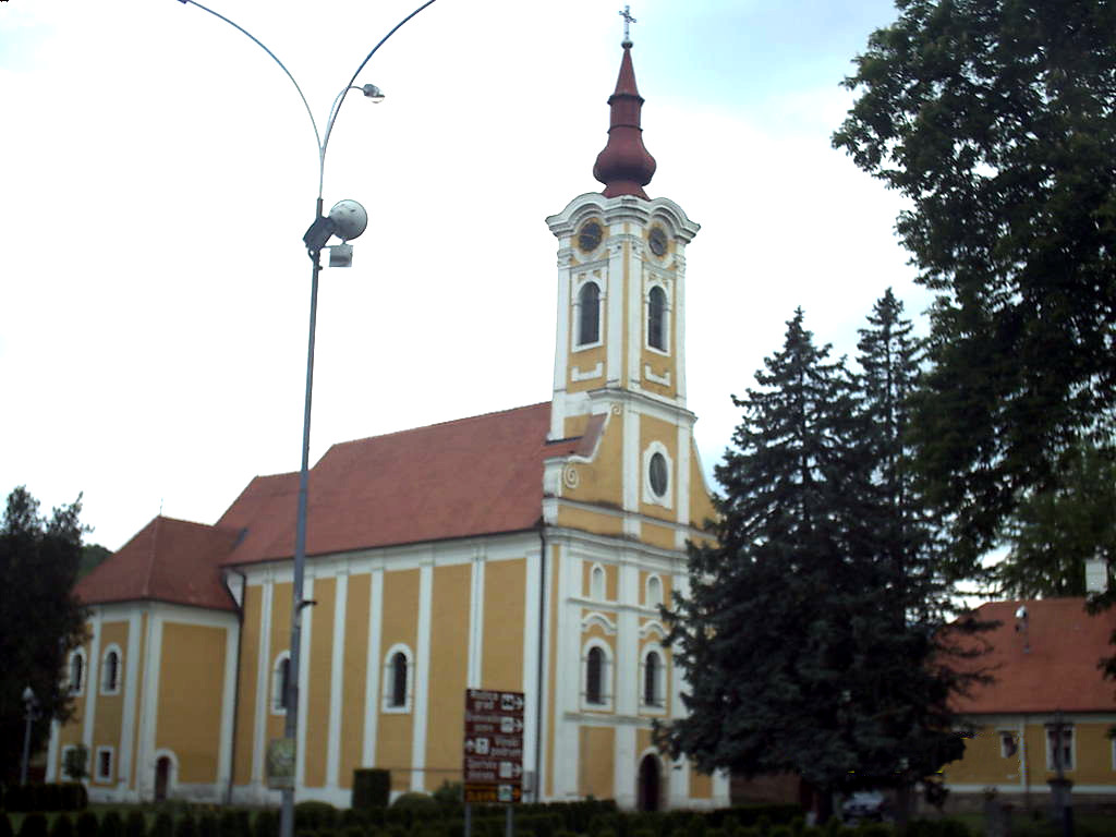 Church in Orahovica